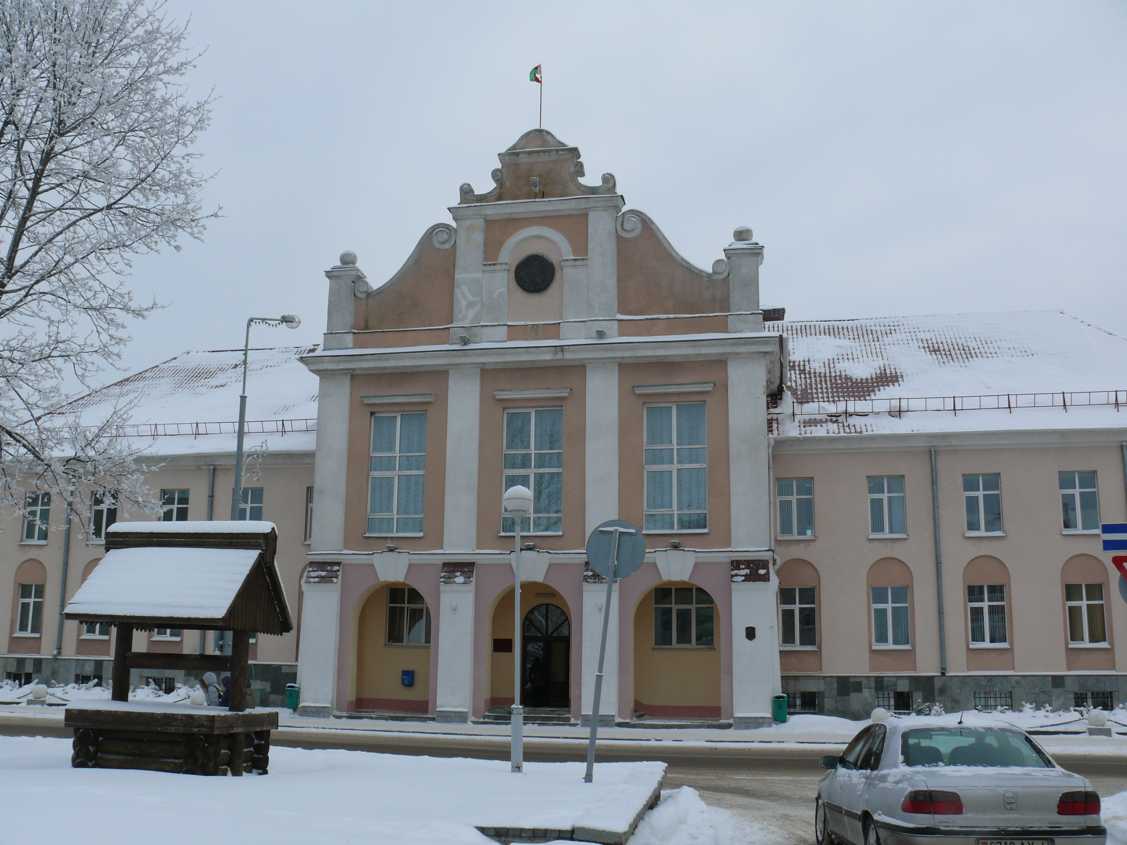 Voivodeship in Navahrudak, Belarus